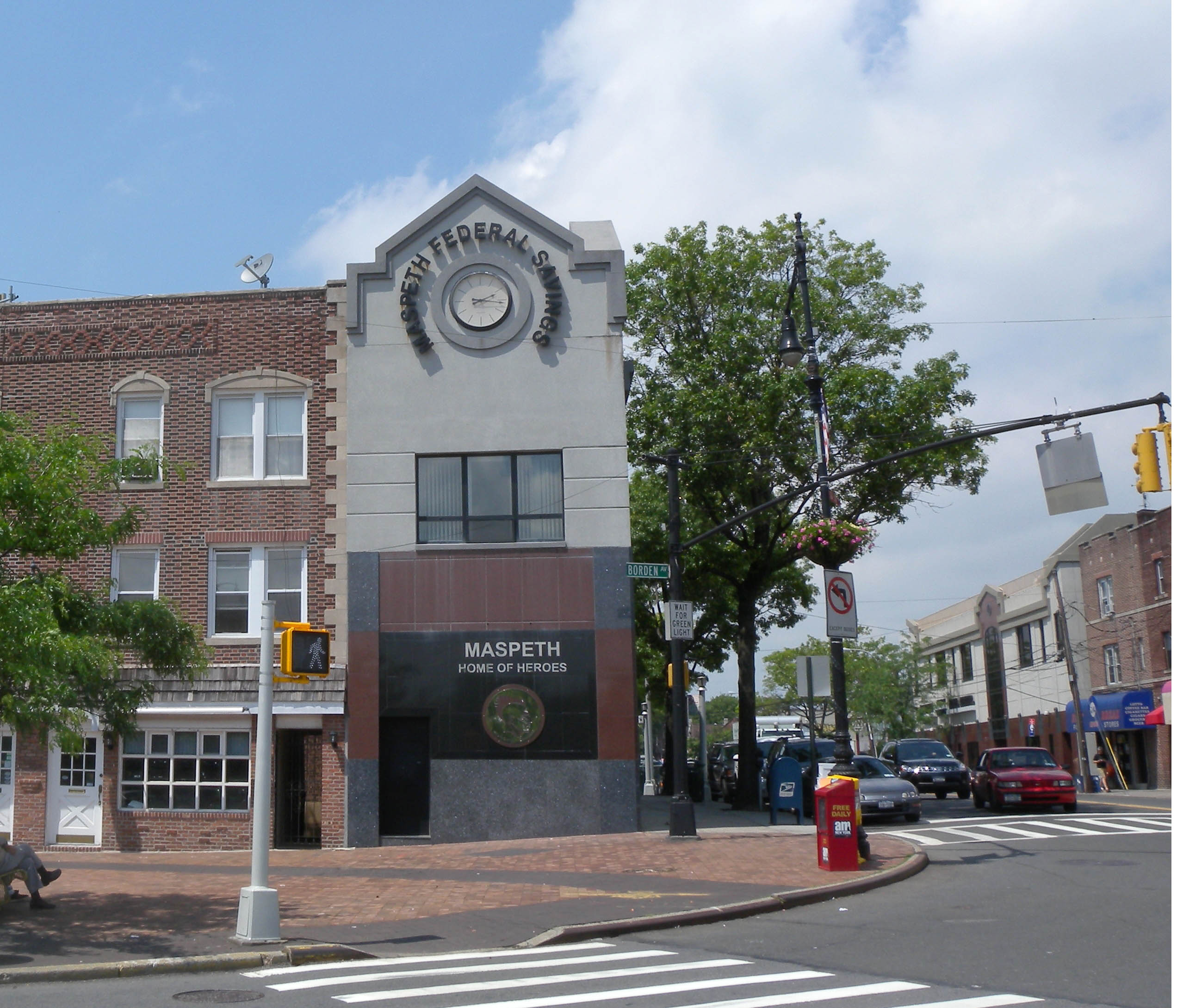 Looking north across Grand Avenue at Maspeth Federal Savings Bank on corner of 69th Street.